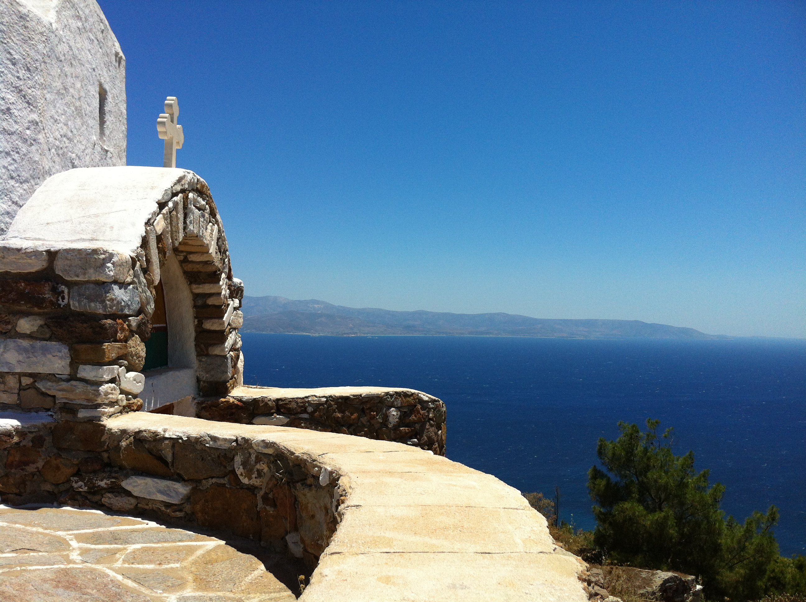 St Antonios Monastery, Paros